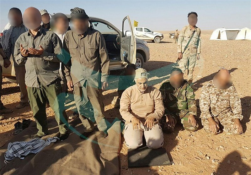 Iranian Maj. Gen. Qasem Soleimani in the Syrian Desert during a local pro-government offensive.